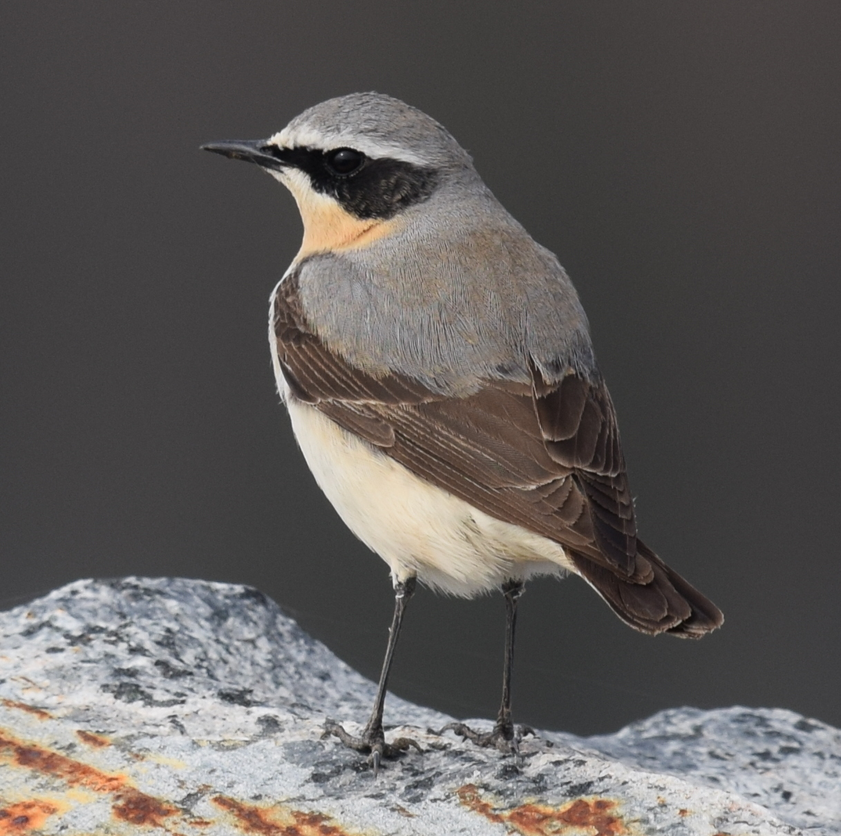 Wheatear male (Oenanthe oenanthe), Larvik, Norway